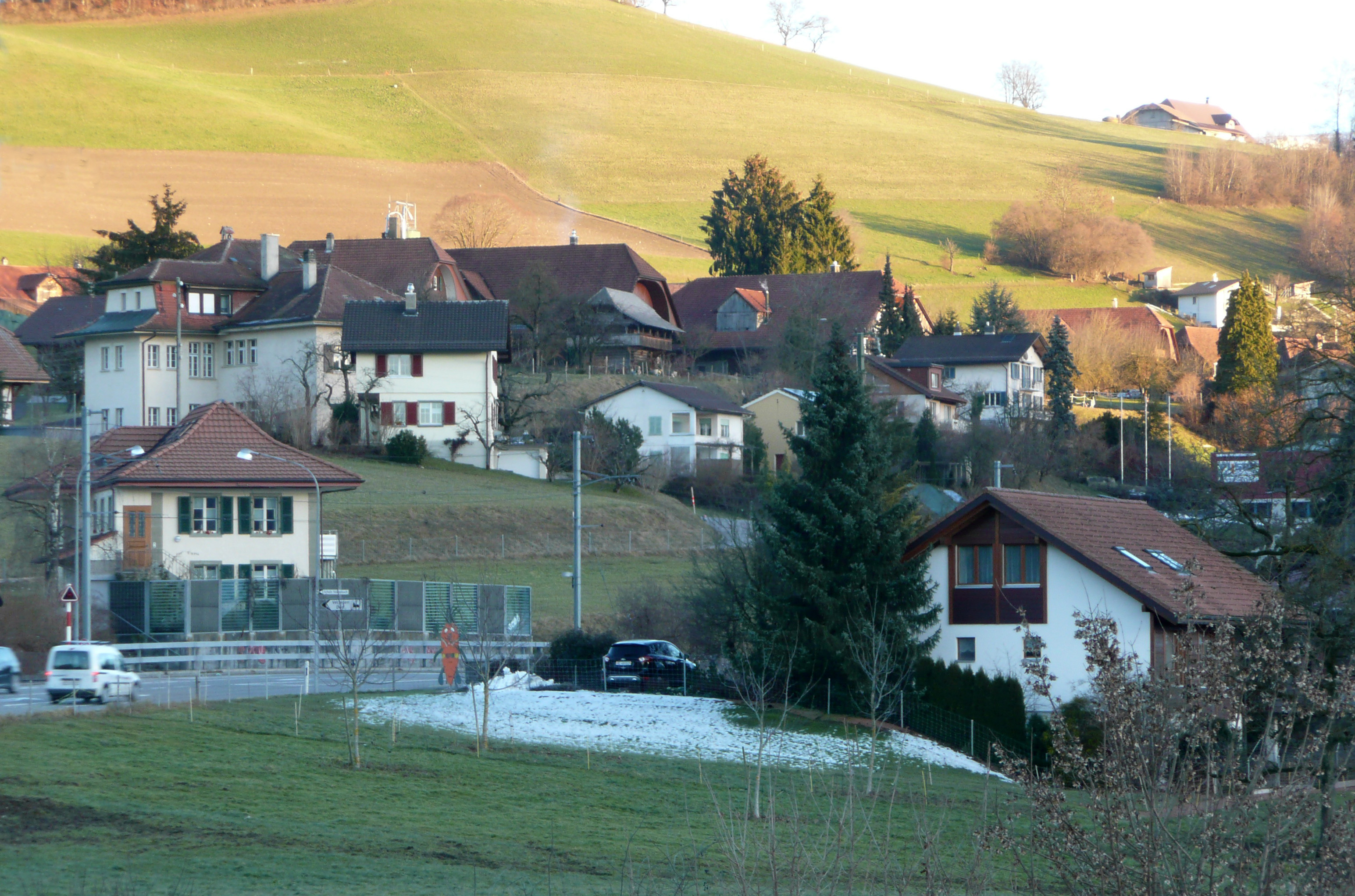 Part of Vechigen; left one of the school buildings